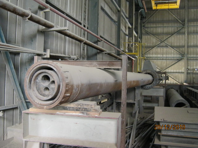 Kiln main burner - Nesher cement, Ramla, Israel